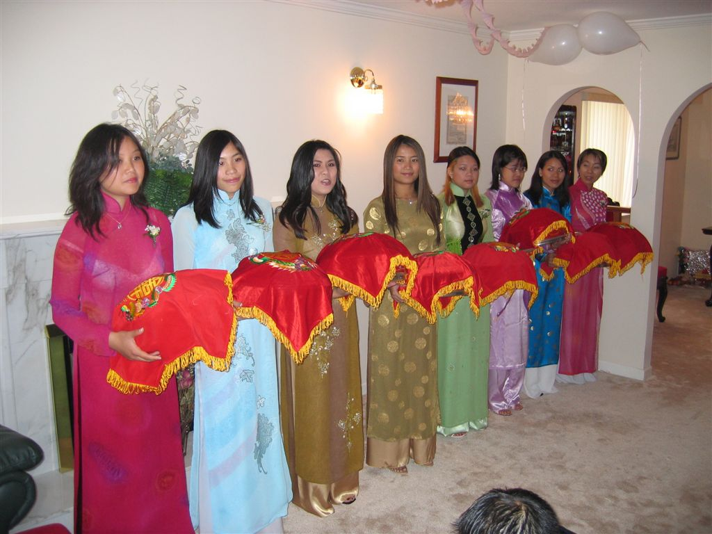 A Vietnamese wedding ceremony taking place in Canada. The objects covered in red are traditional Vietnamese wedding gifts given by the groom's family to the bride's family.